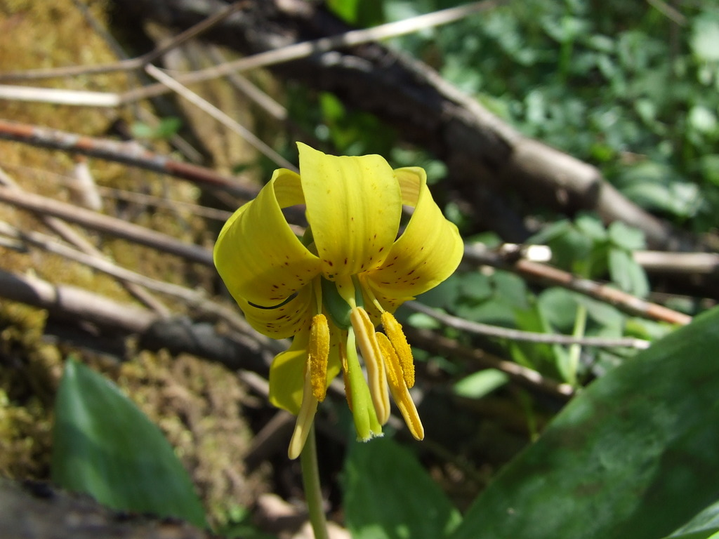 Photo taken in Michigan